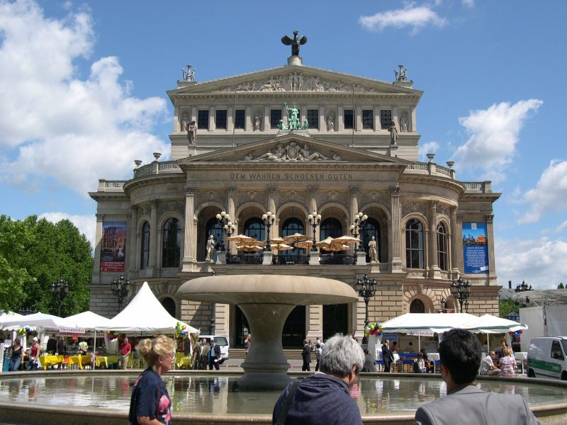 Alte Oper (Old Opera) in Frankfurt am Main, Germany